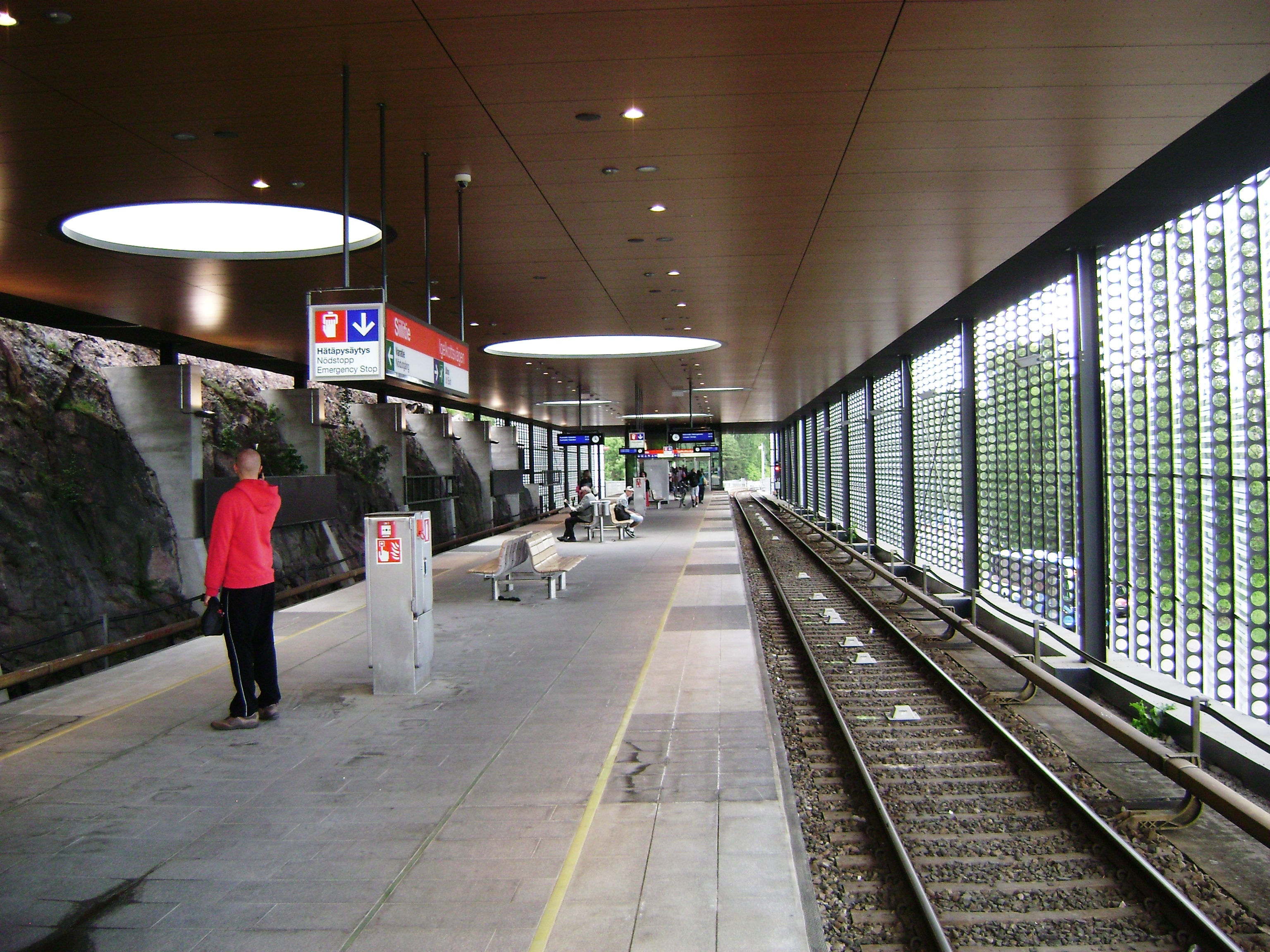 Siilitie metro station.